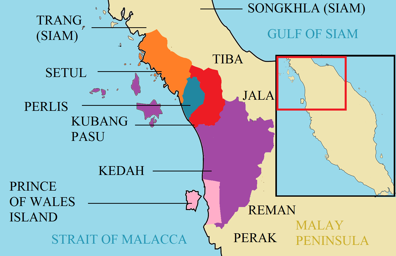 Northern Malay Peninsula, 1860.